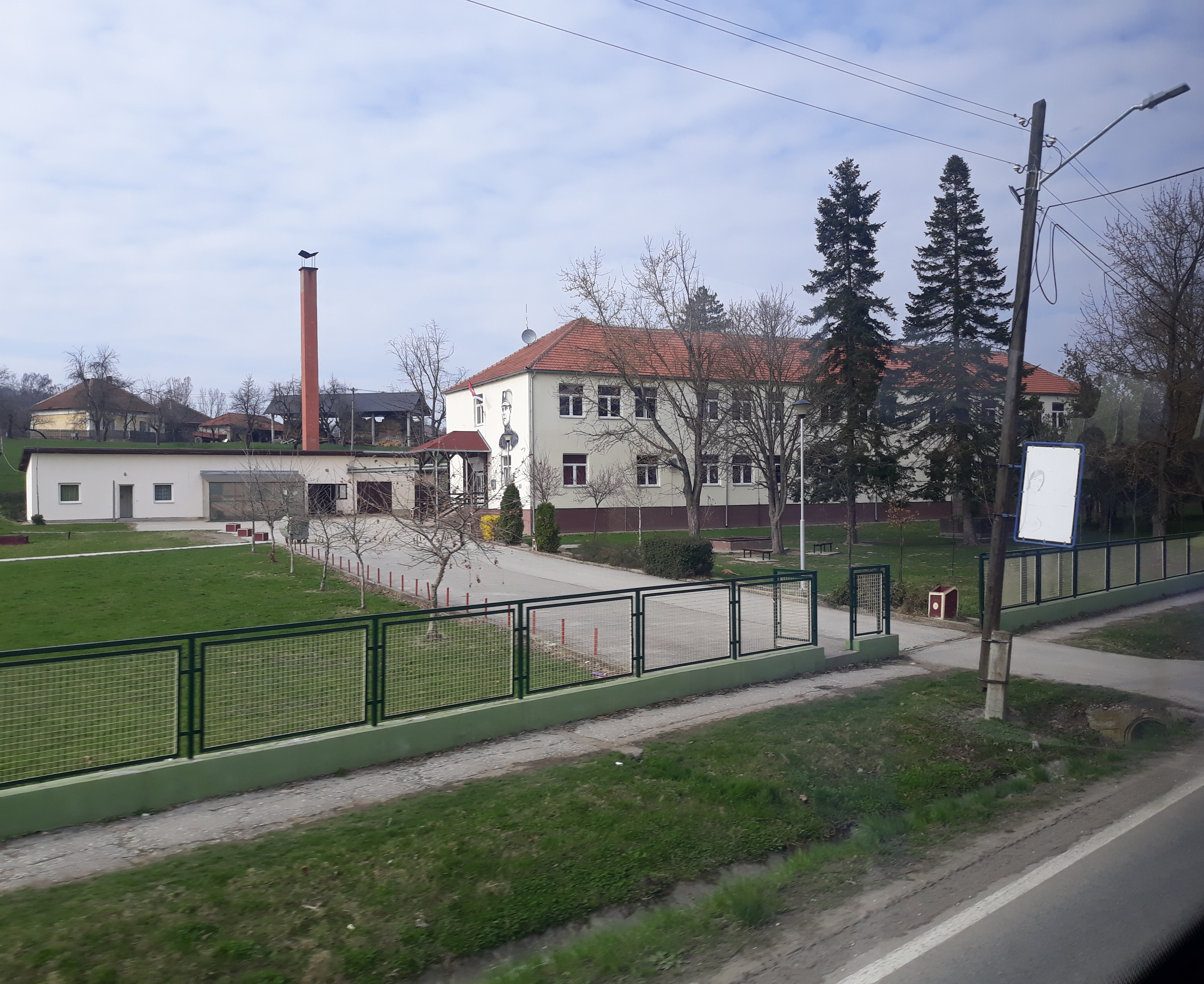 Elementary school in Vitanovac, Kraljevo